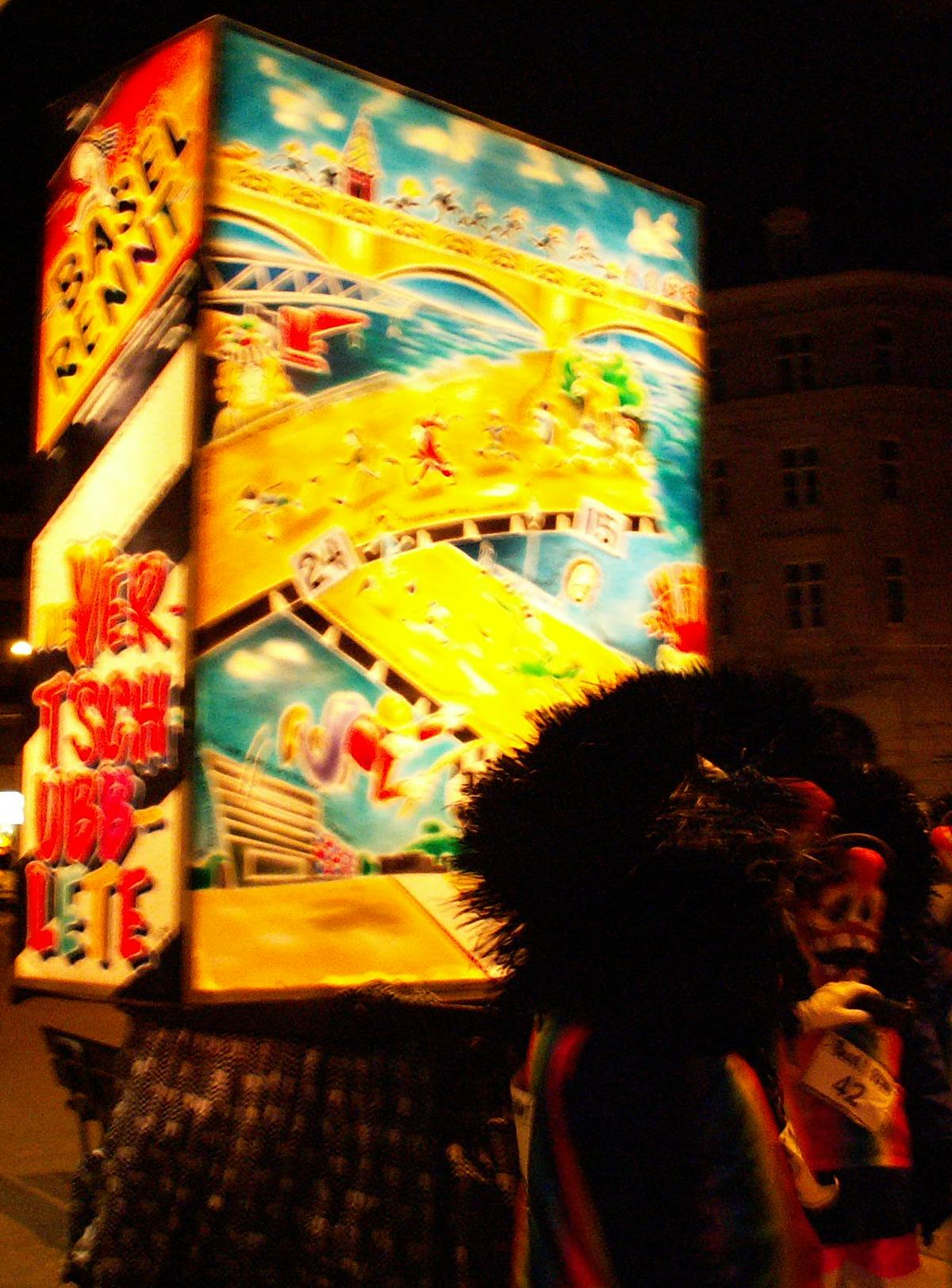 lantern at the basel fasnacht